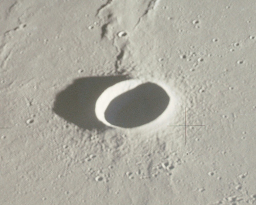 Oblique view of Nielsen crater, on the moon, facing north.